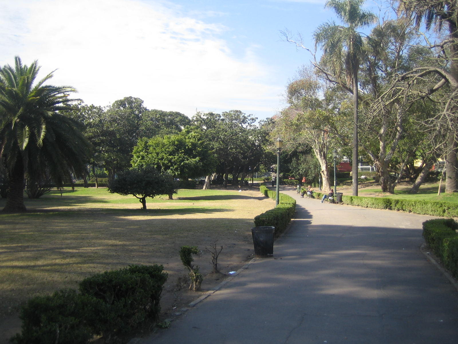 Plaza Intendente Alvear - Buenos Aires - Argentina